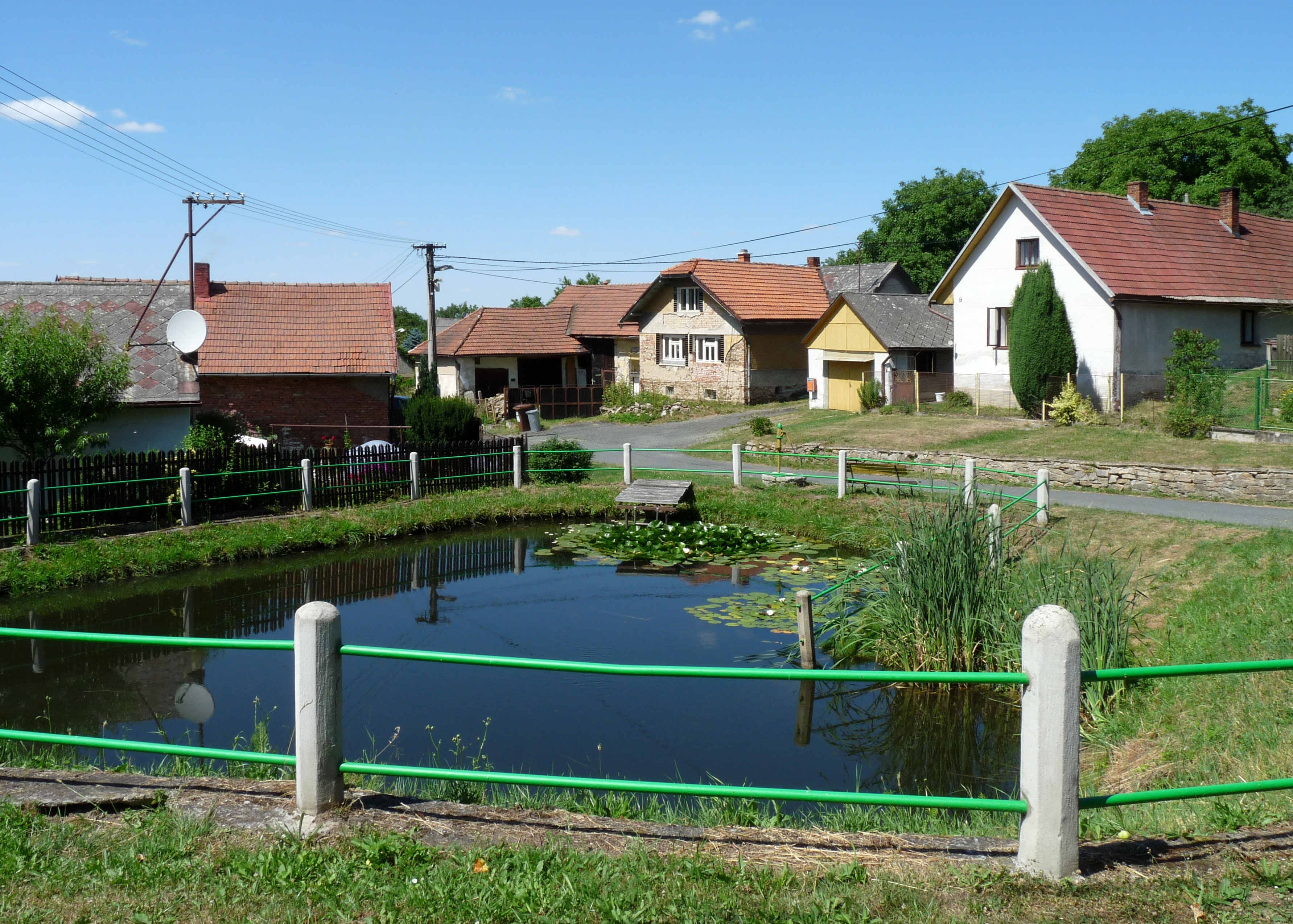 Pond in the village of Kotoučov, Kutná Hora District, Central Bohemian Region, Czech Republic.